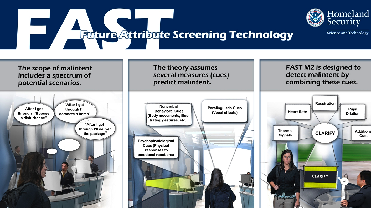 Artist's conception of how Future Attribute Screening Technology (F.A.S.T.) might be employed at a security checkpoint